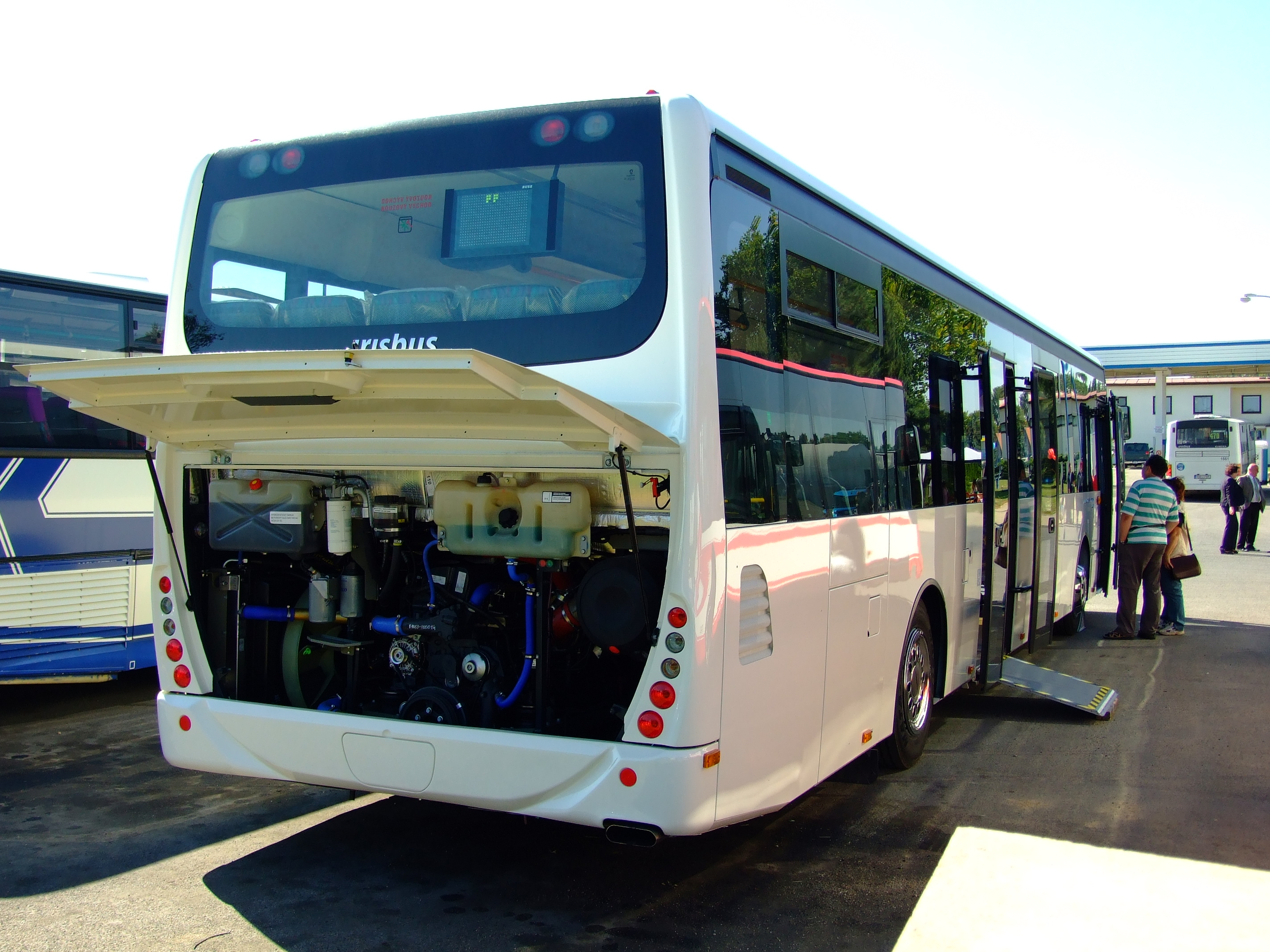 ČSAD Mělník/ČSAD Střední Čechy bus exhibition in Mělní bus garages, Central Bohemian Region, CZhelp